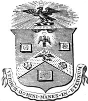 The Mark or Arms of the Stationers' Company